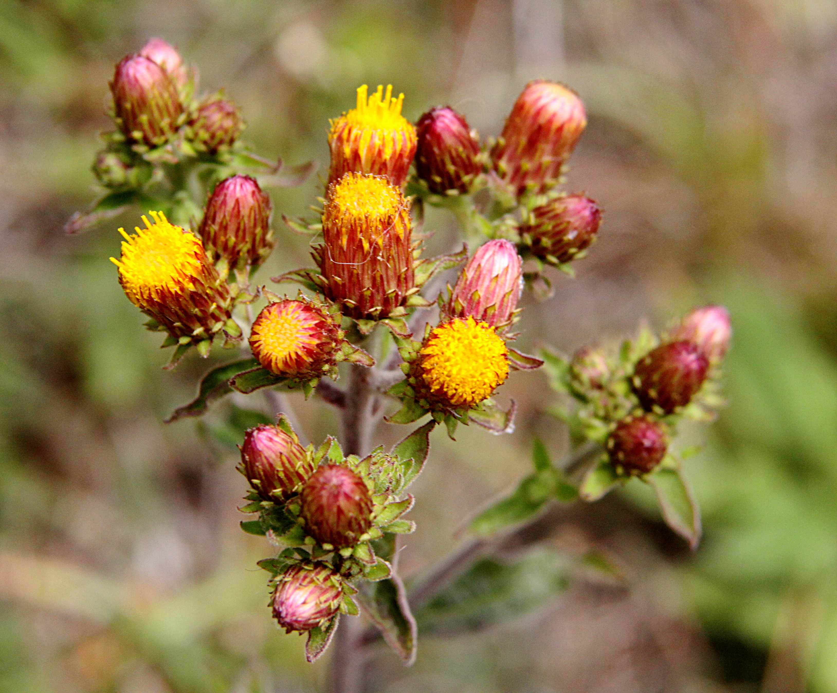 Inula conyzae Ploughman's Spikenard